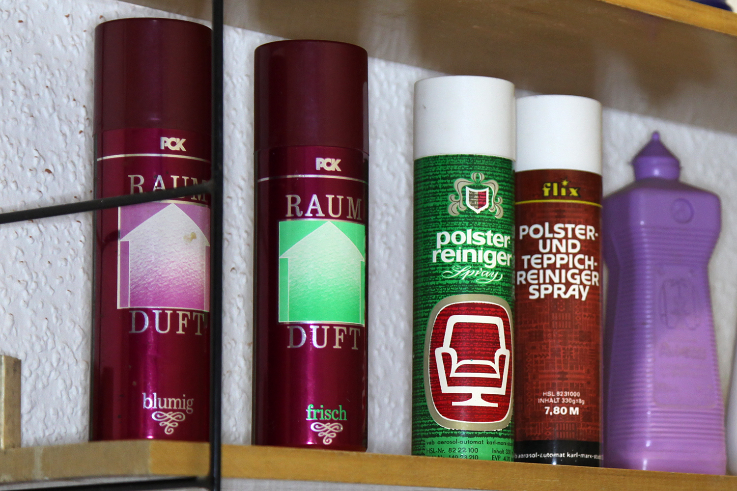 Room scent and cleaner in the DDR-Museum Pirna